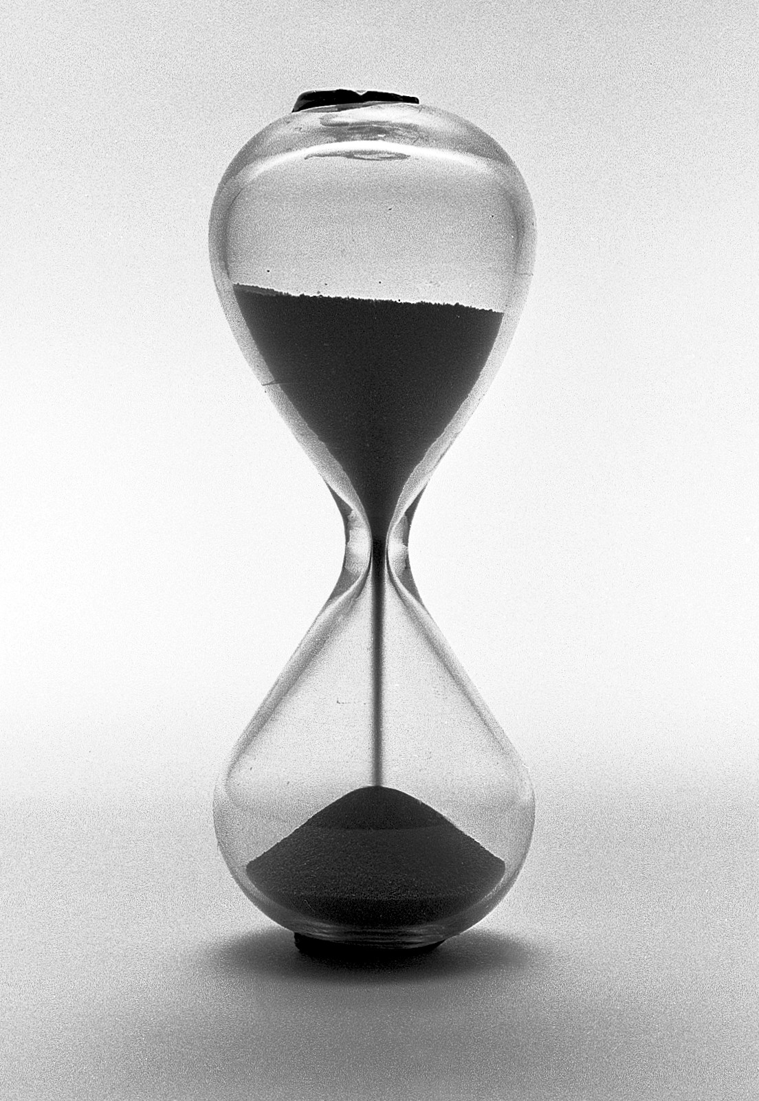 Hourglass in red leather covered case, second of two views. Wellcome Images